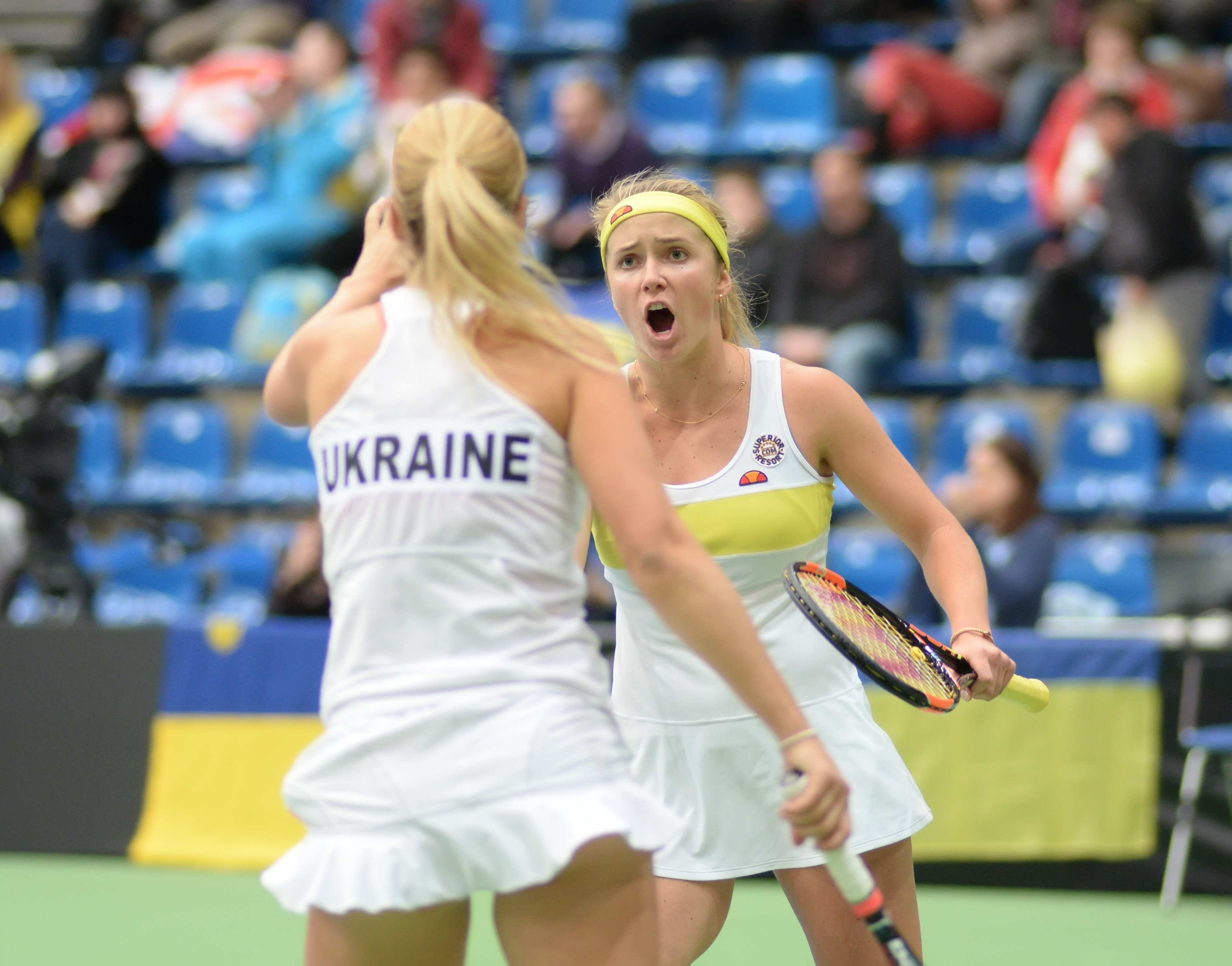 Elina Svitolina (right) and Olga Savchuk (seen on the back) at the 2015 Fed Cup